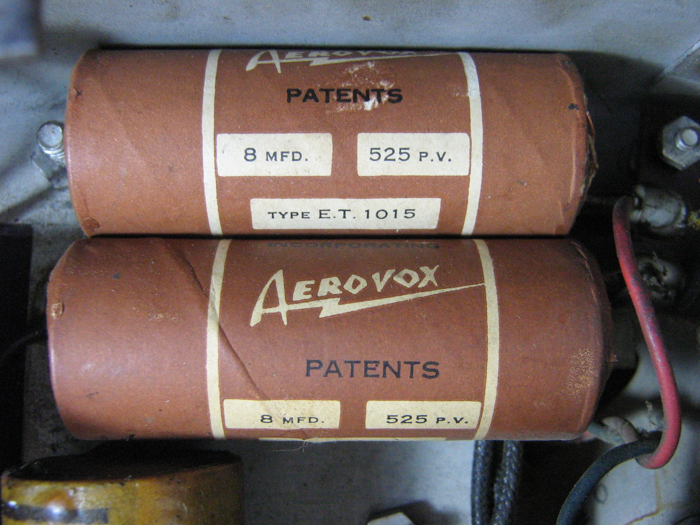 A pair of paper electrolytic capacitors in a 1930's radio.